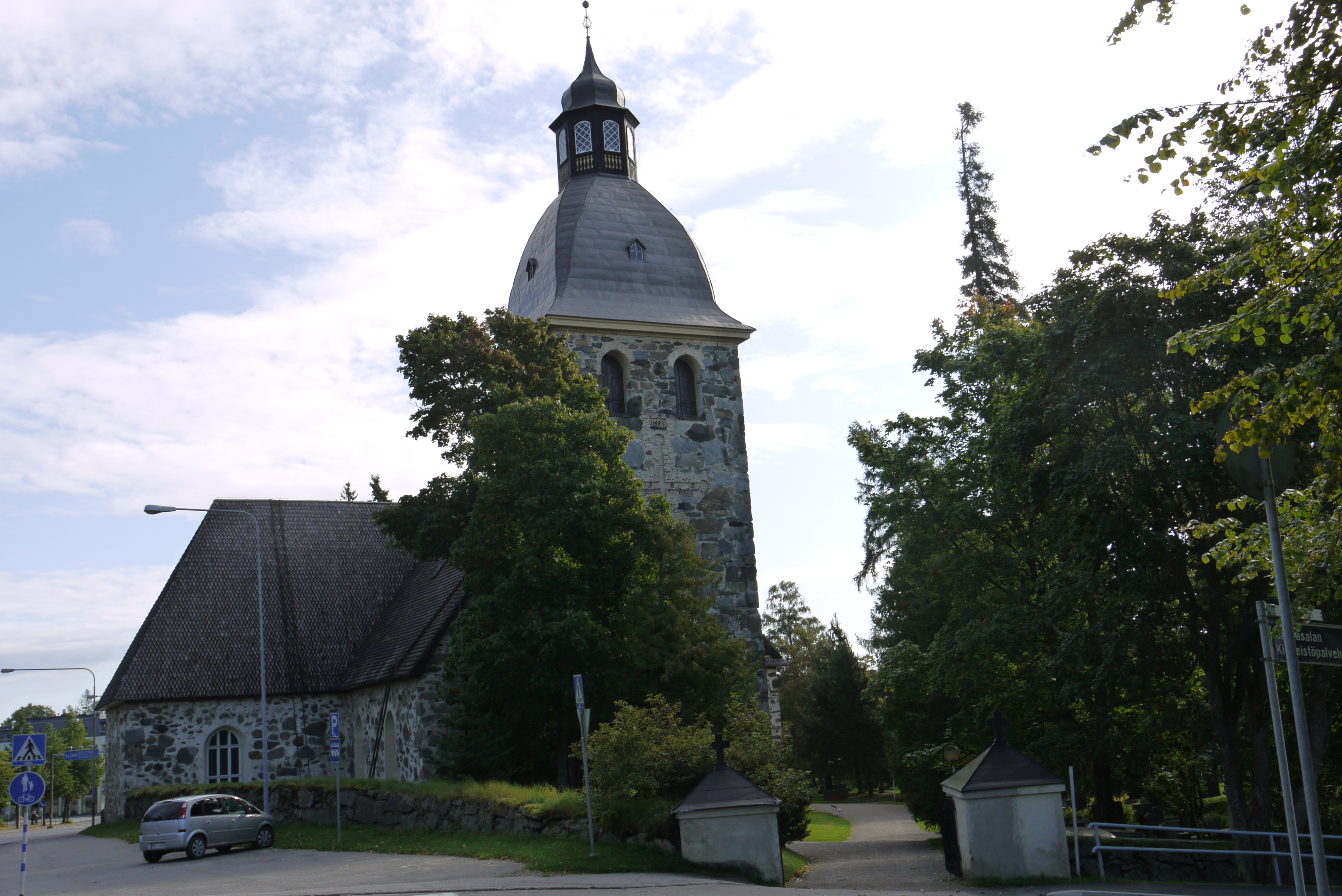 Kangasala Church, Finland